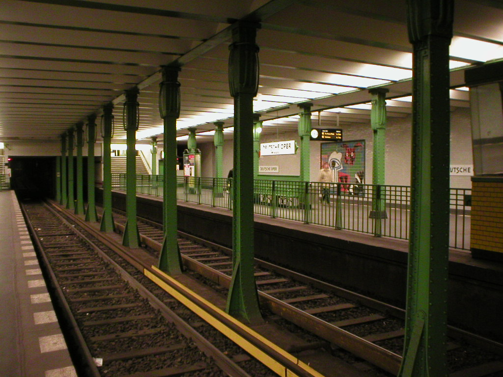 The Berlin U-Bahn station Deutsche Oper, line U2